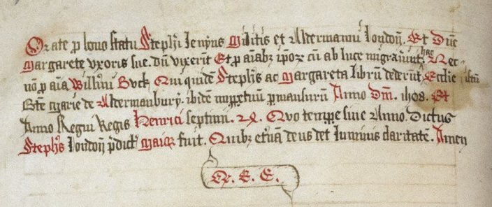 Dedication inscription from the Jenyns Lectionary in the British Library (Royal Collection MS 2 B XIII), detail from the released full-page image. c. 1508. Given by Sir Stephen and Dame Margaret Jenyns to St Mary Aldermanbury church, London.